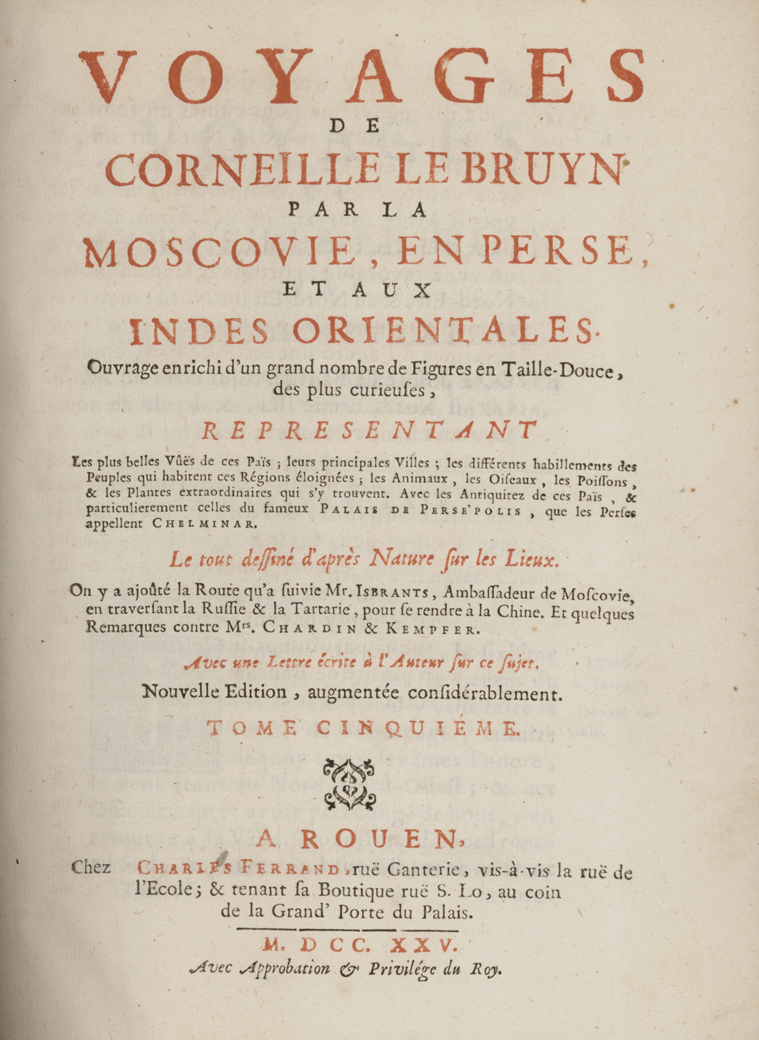 Cornelis deBruyn. Voyage au Levant, c’est-à-dire, dans les principaux endroits de l’Asie Mineure, dans les isles de Chio, Rhodes, et Chypre etc., Paris, Guillaume Cavelier, 1714.